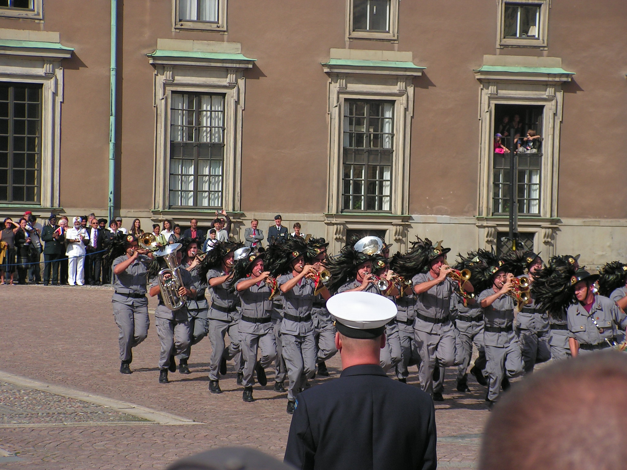 The italian band "Fanfara Bersaglieri di Bedizzole" are marching (running) at Stockholm Castle, Sweden